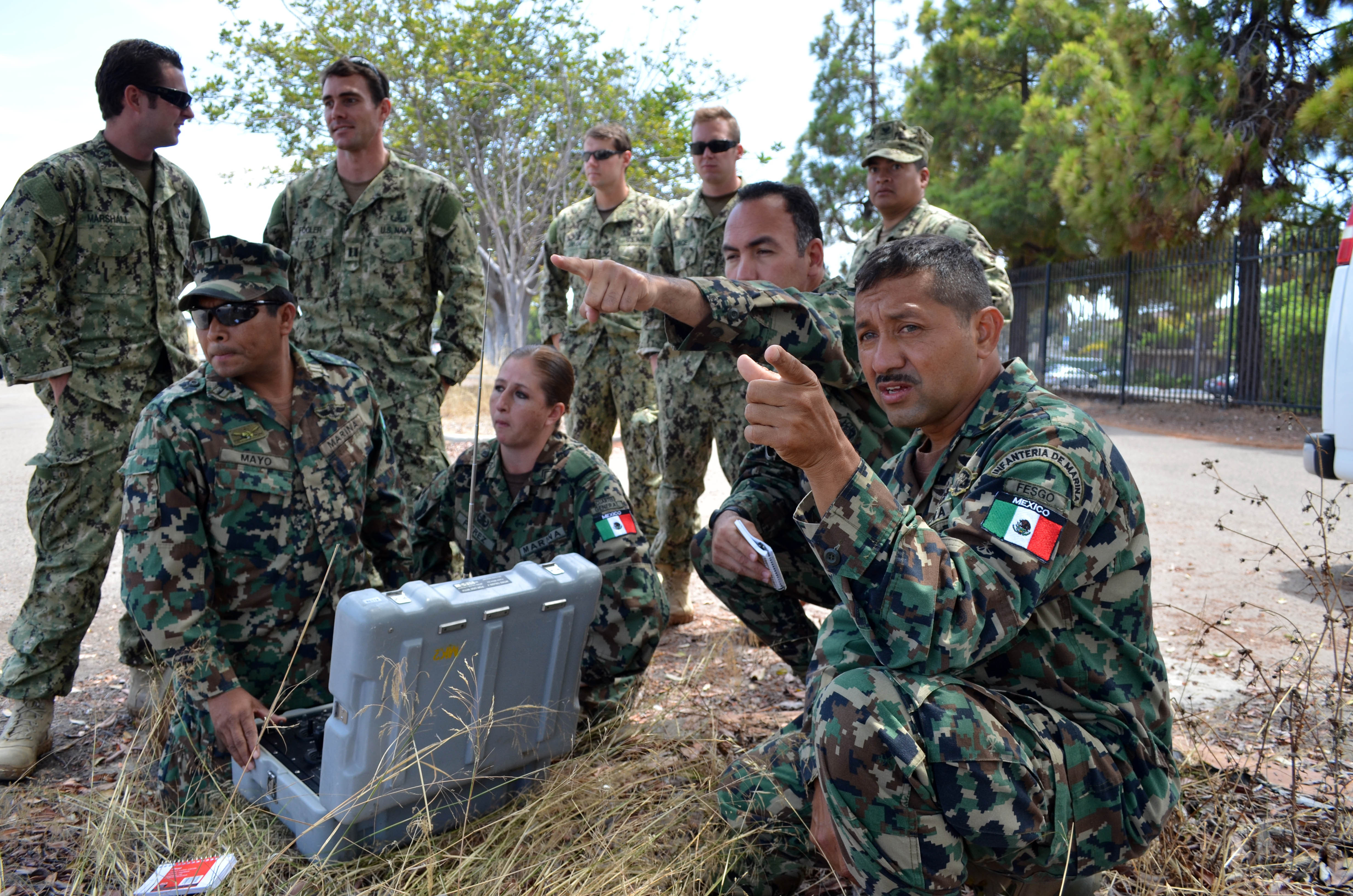 Mexican marine corps explosive ordnance disposal technicians formulate a plan to defeat a simulated improvised explosive device during a subject matter expert exchange with U.S. Sailors assigned to Explosive Ordnance Disposal Mobile Unit 3 in San Diego, Calif., Aug. 9, 2012. The exchange was conducted to enhance technical skills and interoperability between the units.